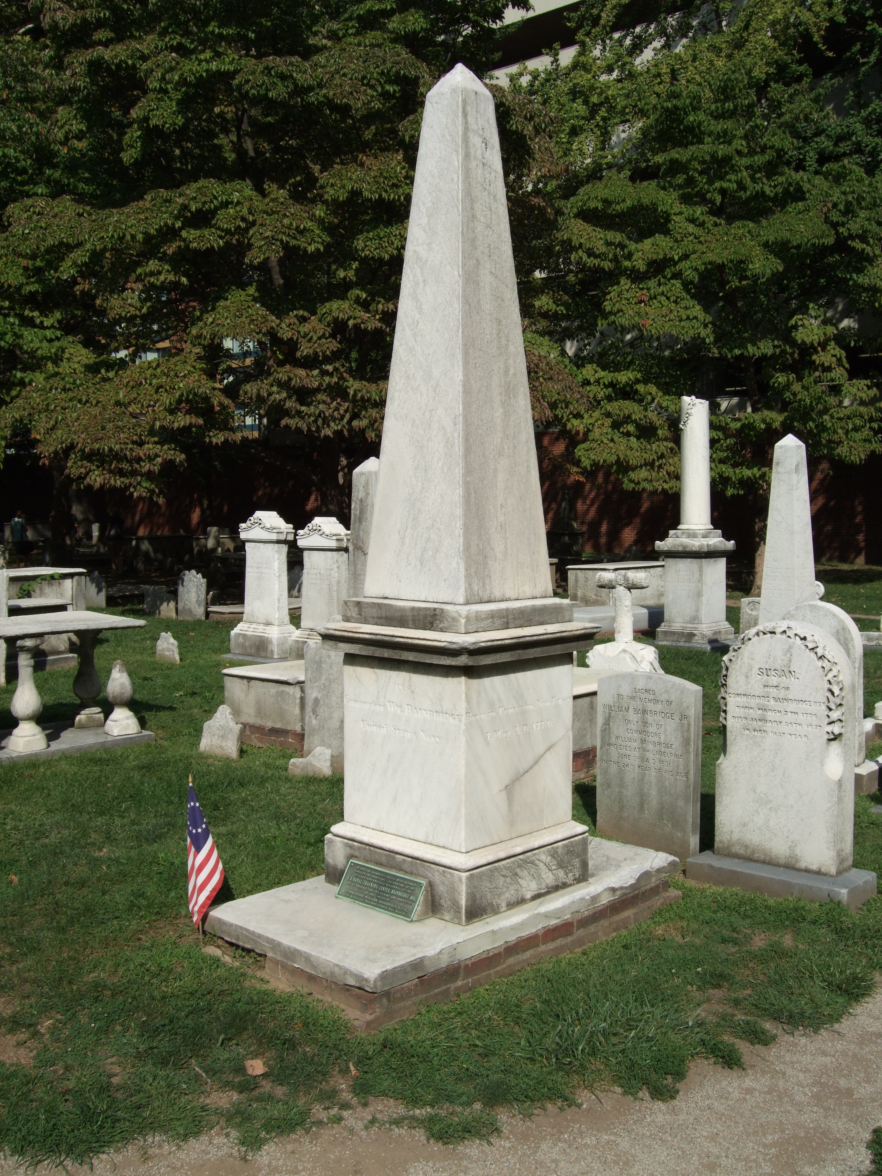 William Bainbridge tomb, Christ Church Burial Ground in Philadelphia, Pennsylvania